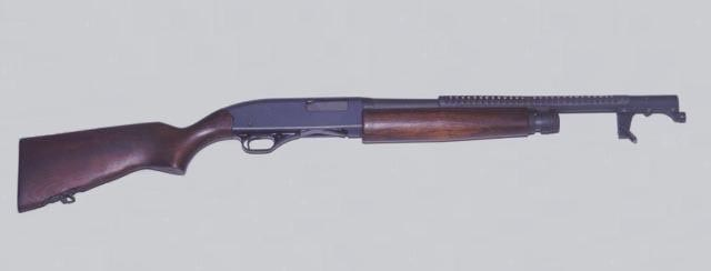 Picture of Remington Model 870 12 Gauge Shotgun